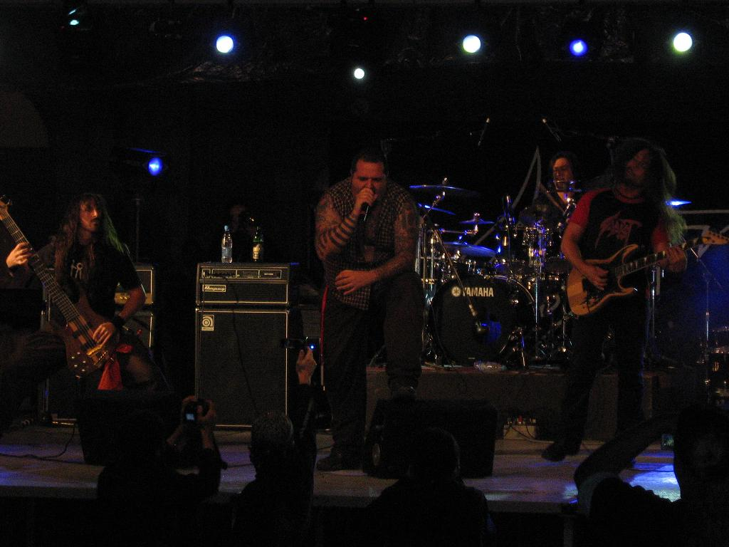 Sadist live in Armenia, September 28, 2008 at the "Rock The Borders" festival.